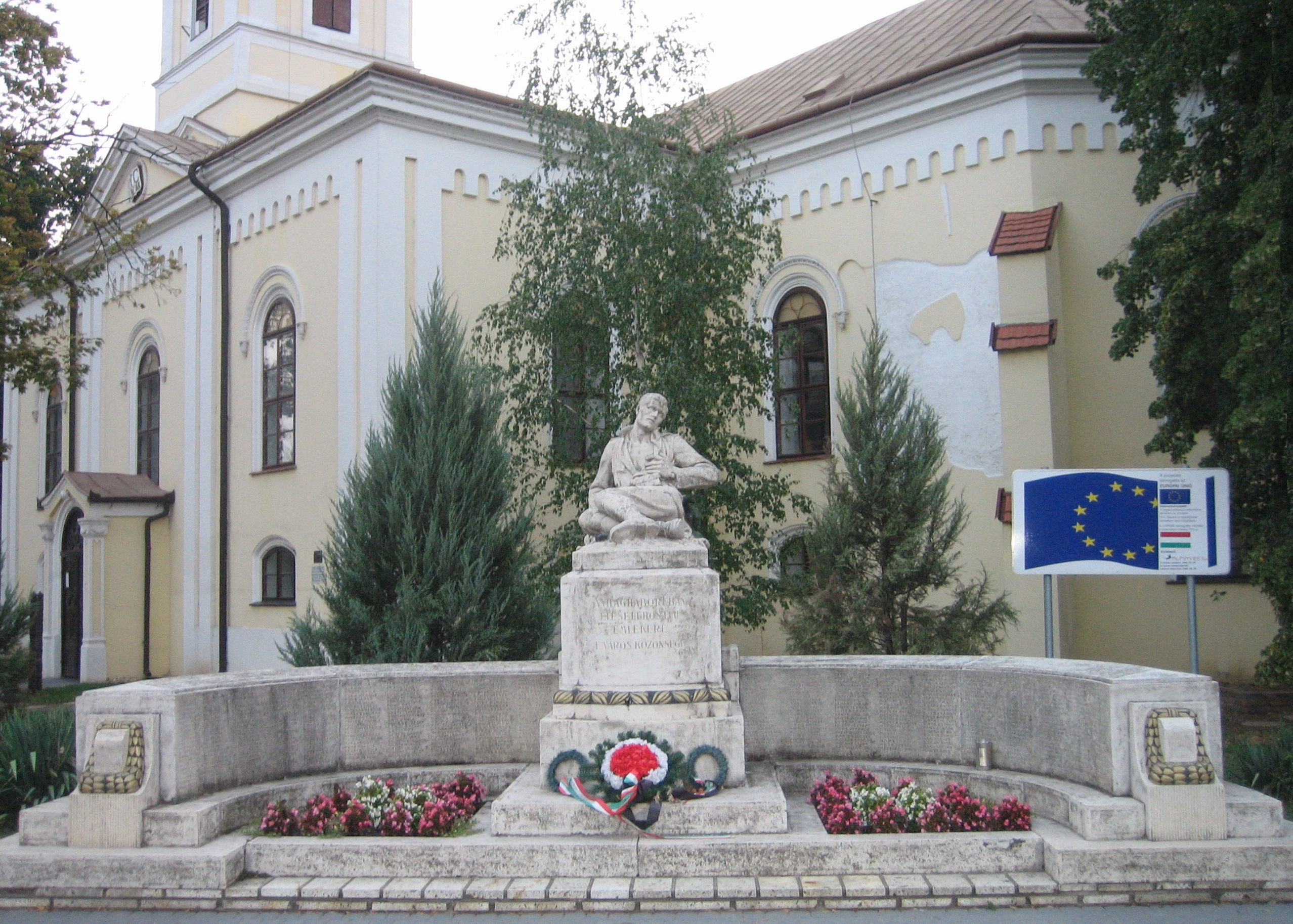 Monument of the hungarian WW-I heroes in Hajdúszoboszló